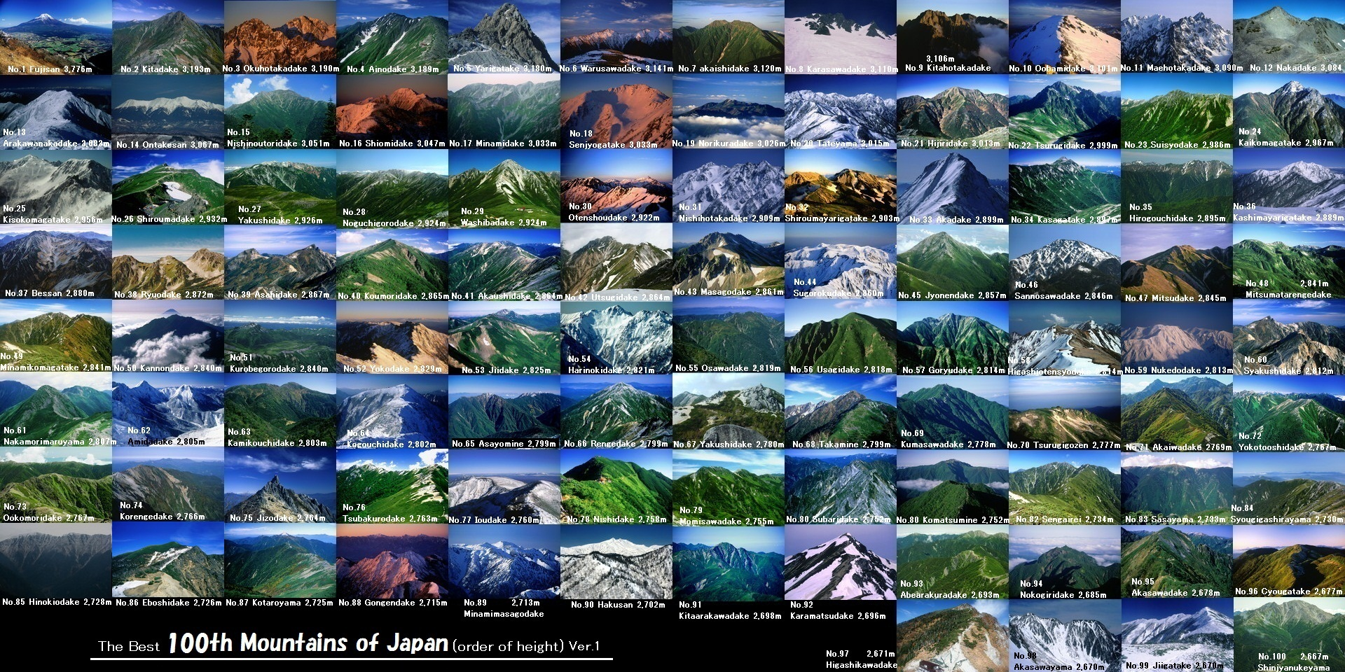 Montage of the 100 highest mountains in Japan, listed by elevation